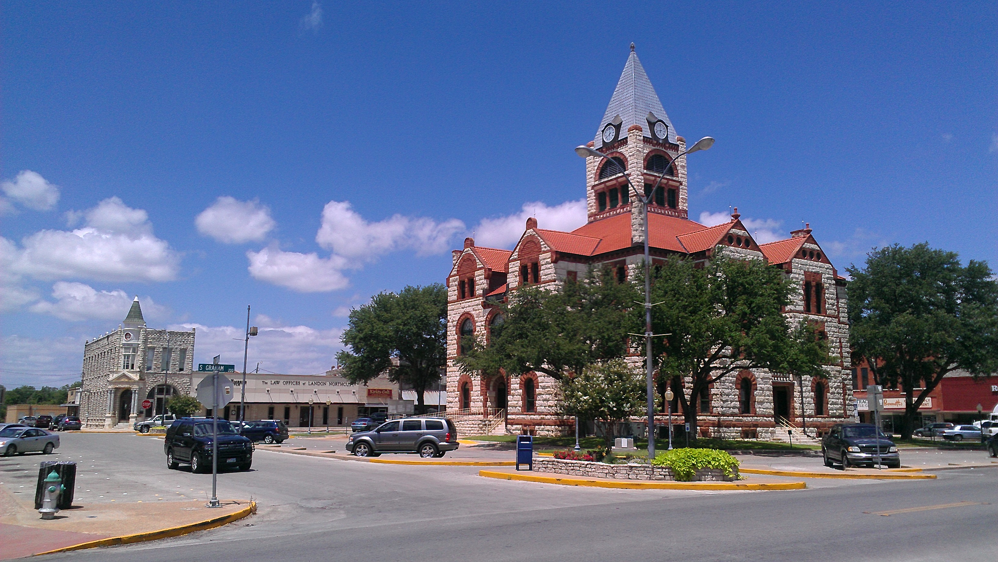 Stephenville Texas with Erath County Courthouse